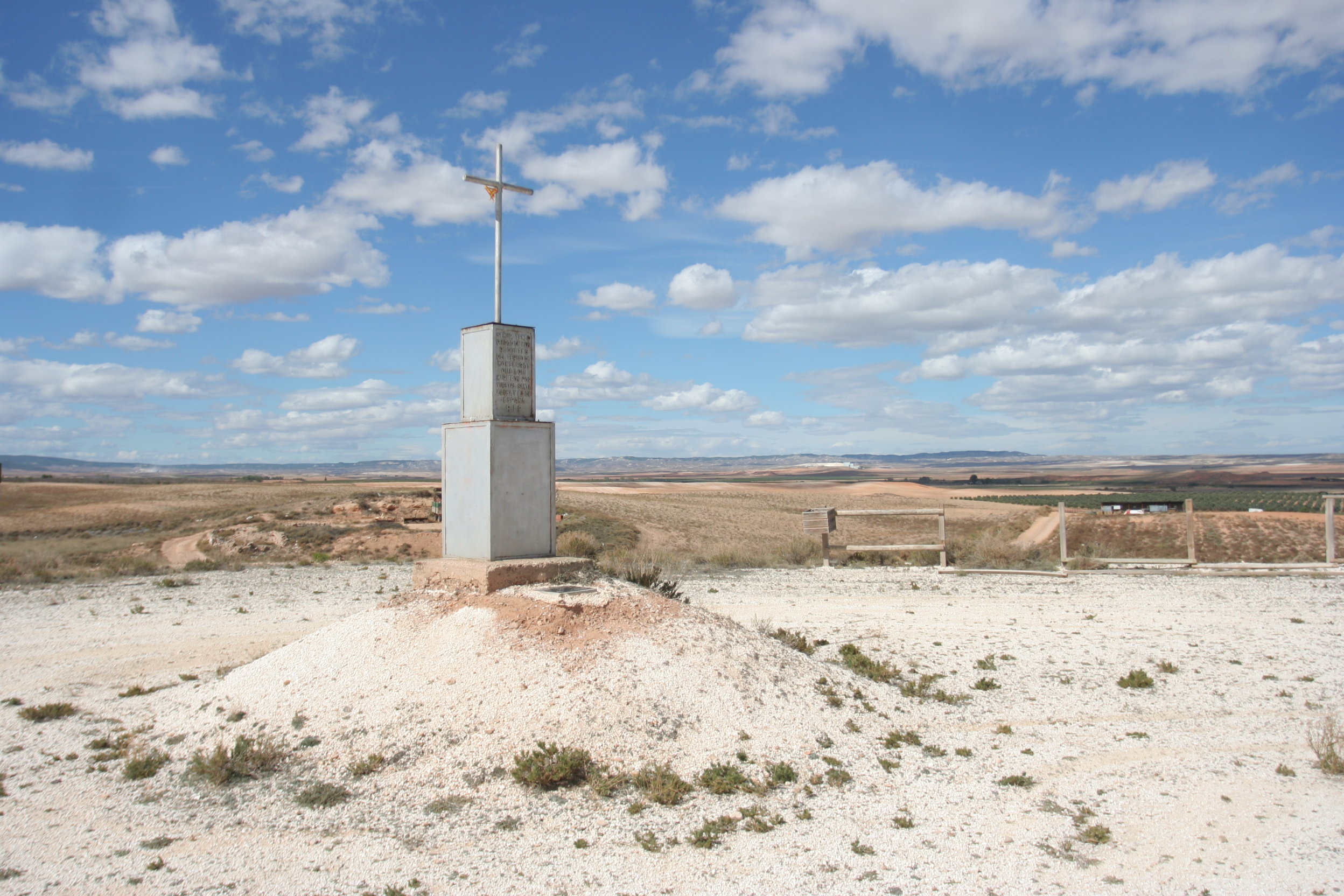 Codo. Cross commemorating Carlist soldiers of Tercio de Nuestra Señora de Montserrat fallen during the battle of Codo